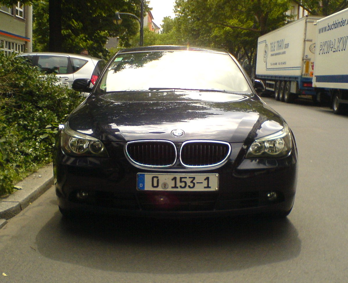 Diplomatic license plate of the embassy of Cyprus in Germany